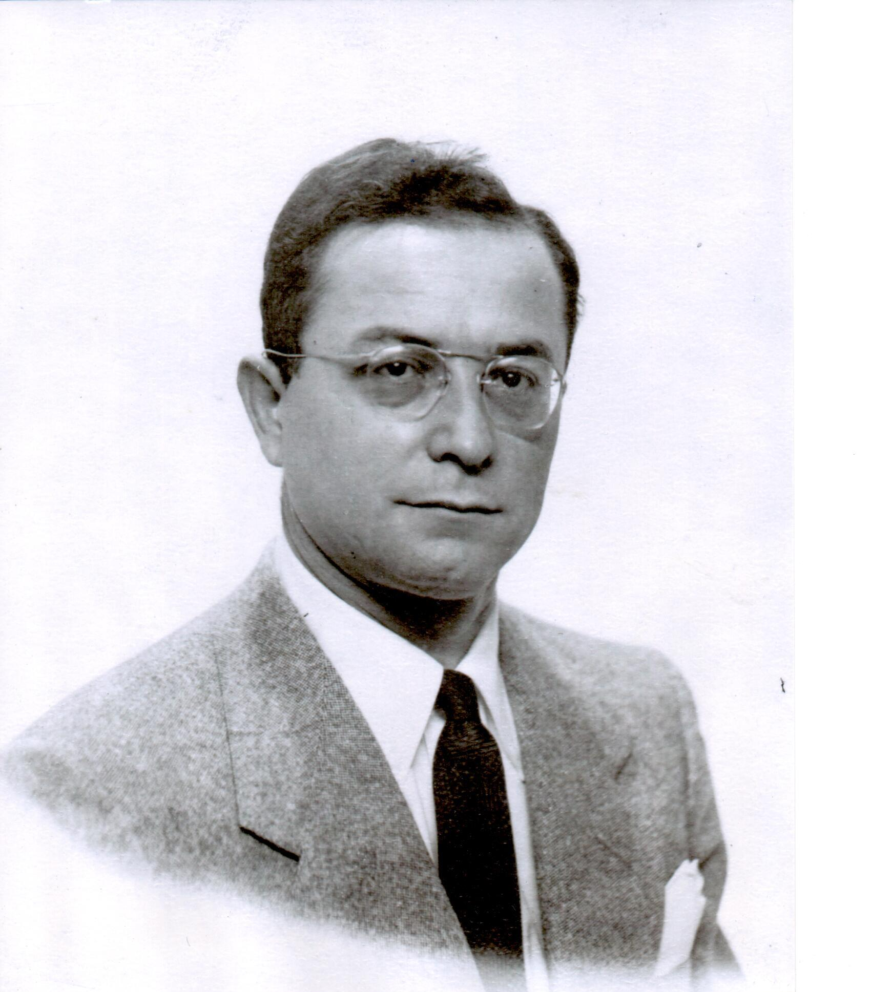 Isaac Hameiri was an Israeli journalist. He died in 1955